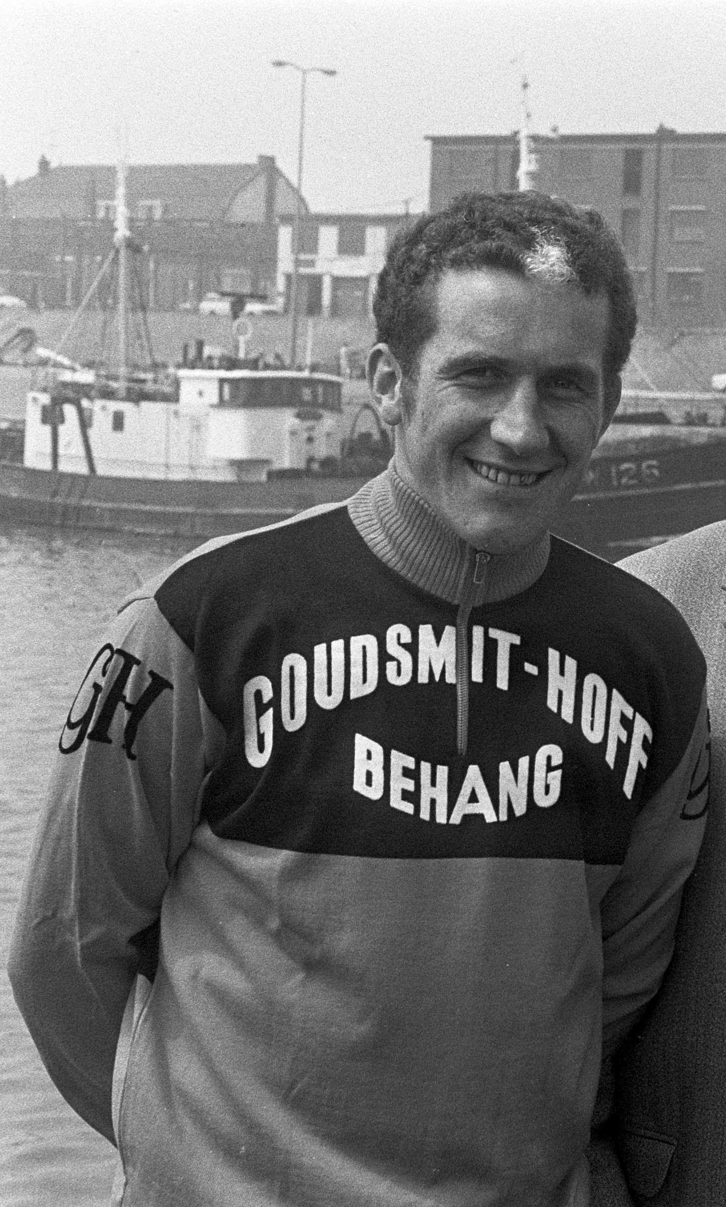 Presentatie van de Nederlandse ploeg (Goudsmit - Hoff) voor de 59e Tour de France in Scheveningen, Kees Pellenaars met Rini Wagtmans (l) en Tino Tabak (r)